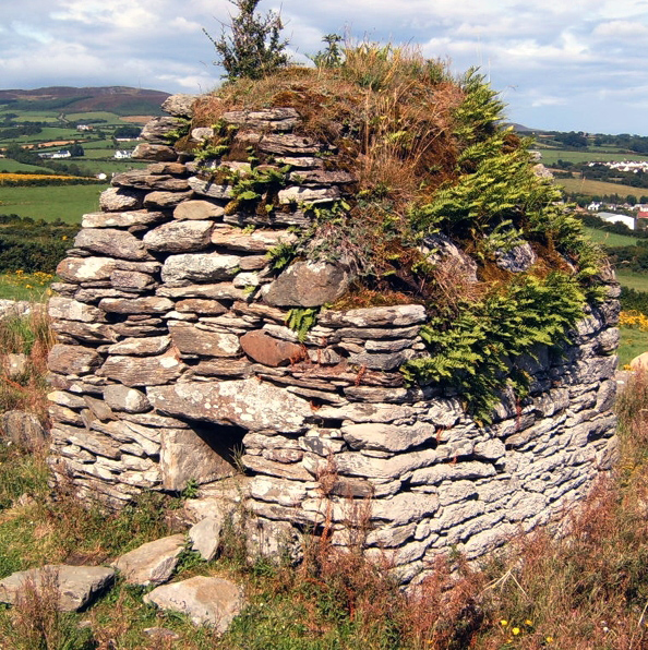 The Skull House in Moville